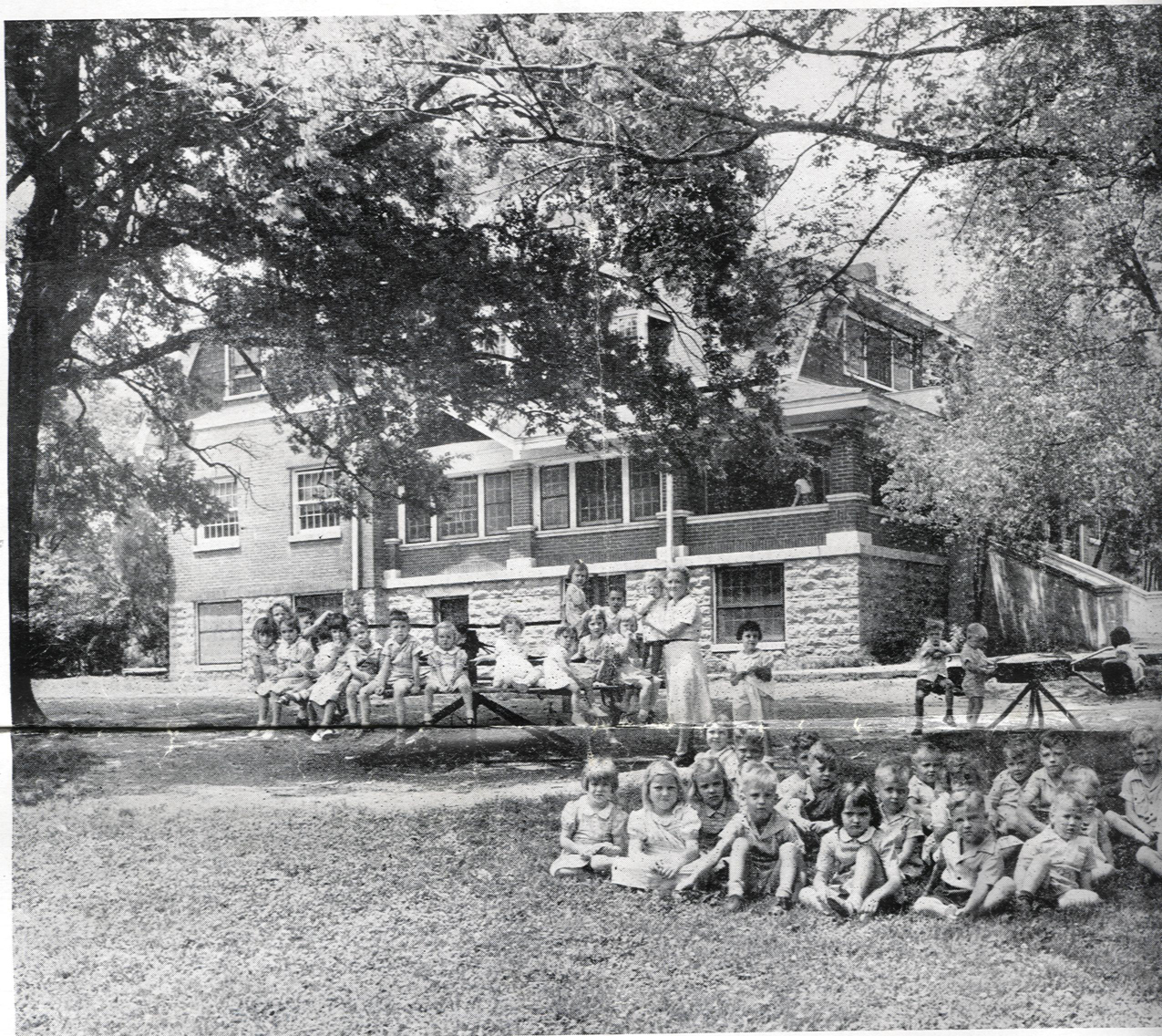 This picture was taken in 1911 at the Baptist Children's Orphanage.